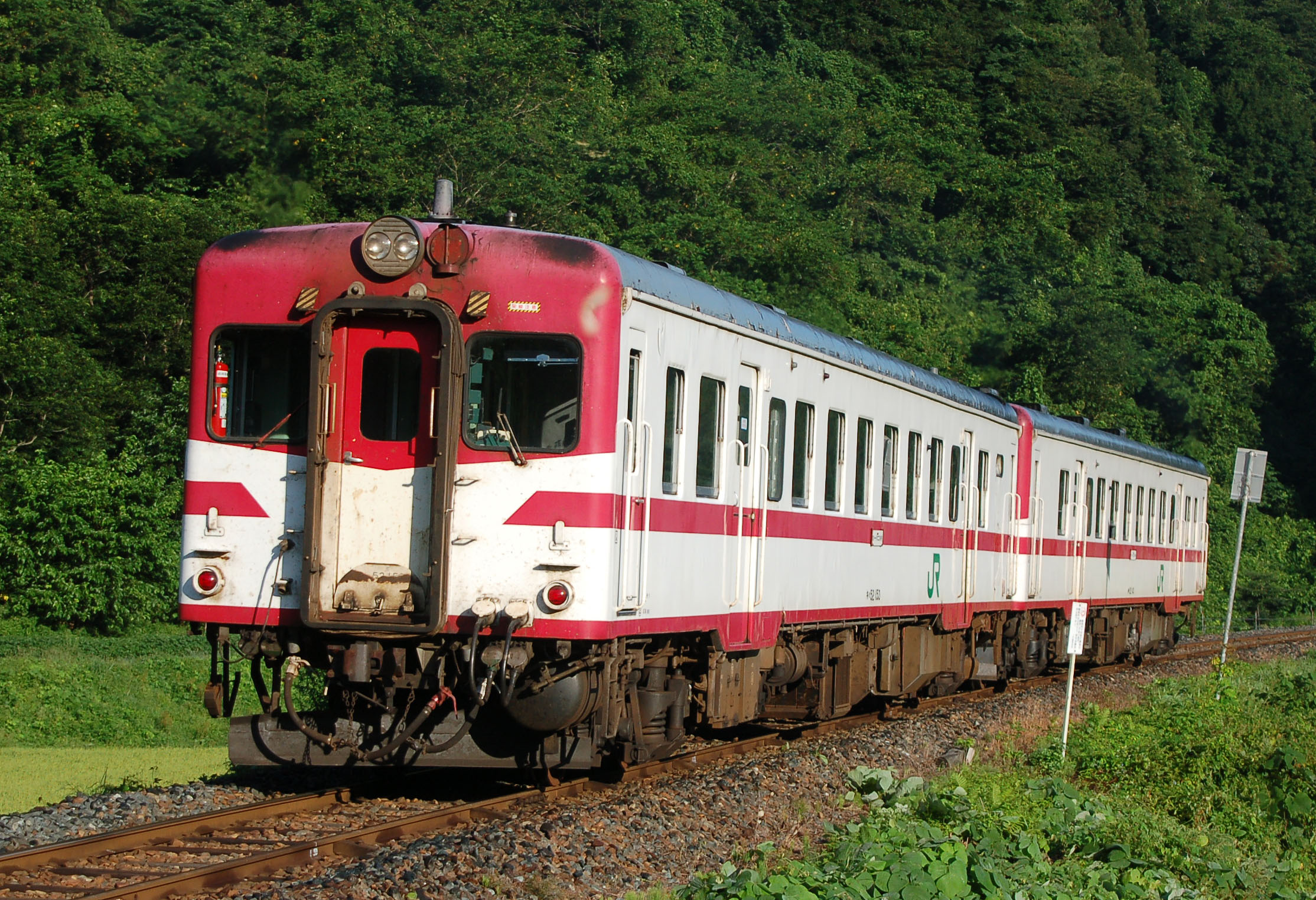 A pair of JR East KiHa 52 DMU cars in "Morioka" livery on the Iwaizumi Line